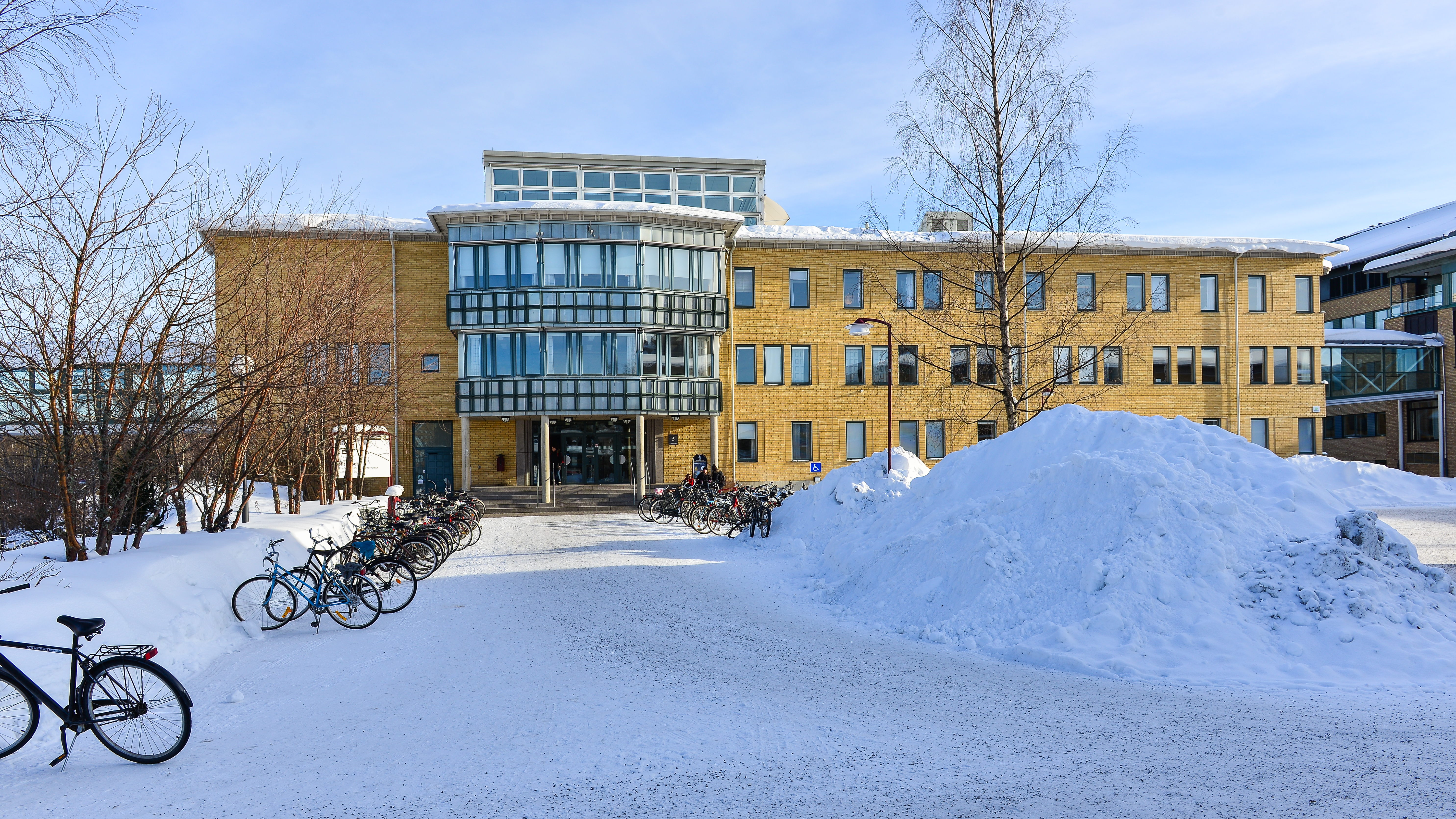 Umeå University, the MIT building (MIT-huset) at the main campus.